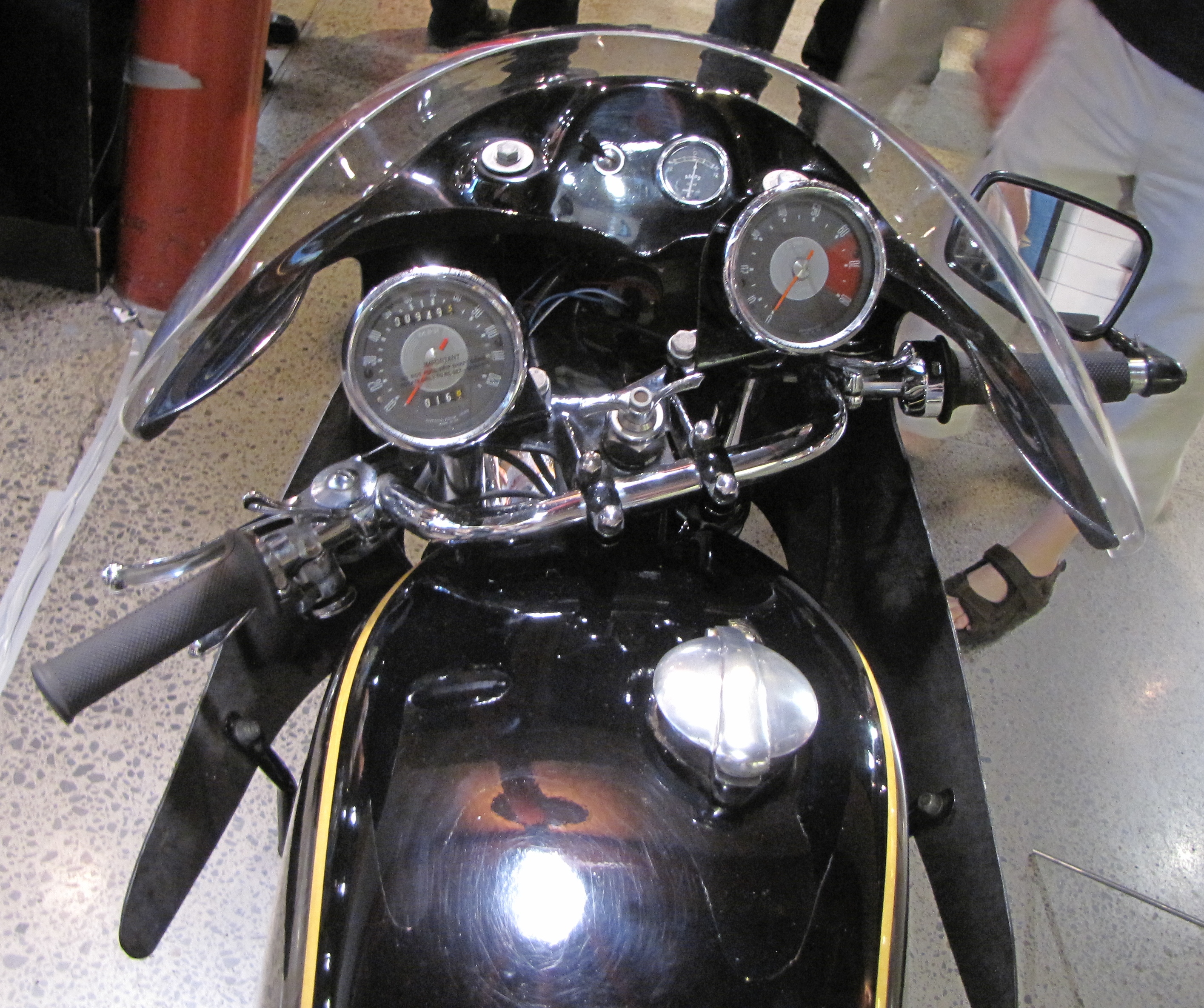 Instrumentation of a Velocette Thruxton motorcycle. At the Star Insurance classic motorcycle show, Auckland, New Zealand. 25 January 2014.